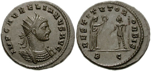 AURELIAN. 270-275 AD. Antoninianus (23mm, 4.25 g, 5h). Cyzicus mint, 2nd officina, 8th emission, Spring 273-Spring 274 AD. IMP C AVRELIANVS AVG, radiate and cuirassed bust right RESTITVTOR ORBIS, female figure standing right, presenting wreath to Aurelian, who stands left, holding sceptre; BC. RIC V 368; MIR 47, 342b2; BN 1182-1184. Good VF, dark brown patina.